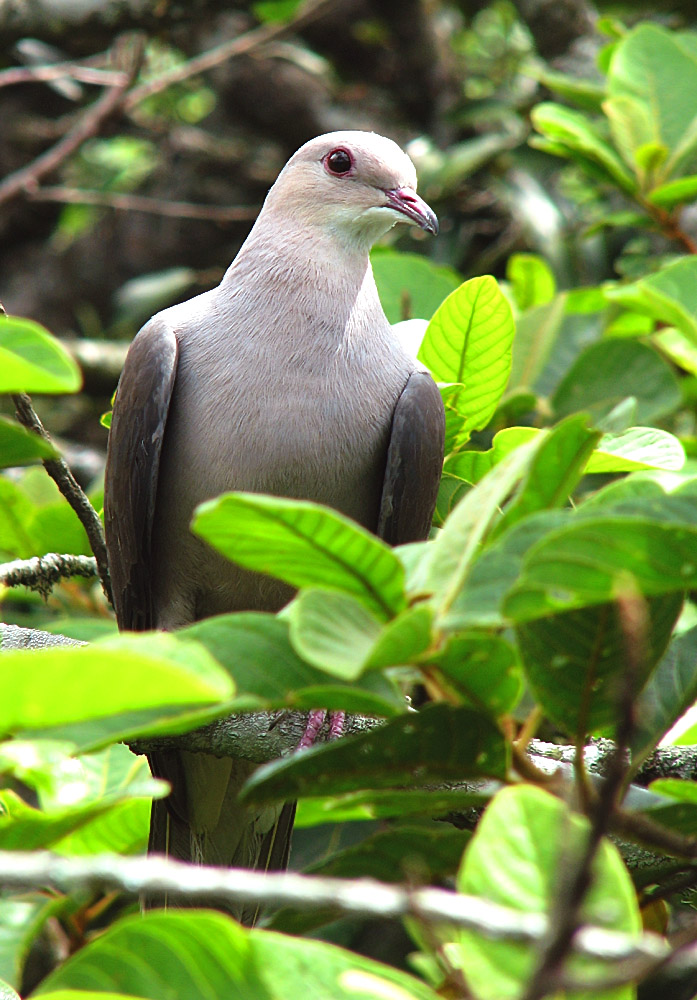 Shot in the forest canopy of Litsea sp. tree in Kalakad Mundanthurai Tiger Reserve, Tamil Nadu